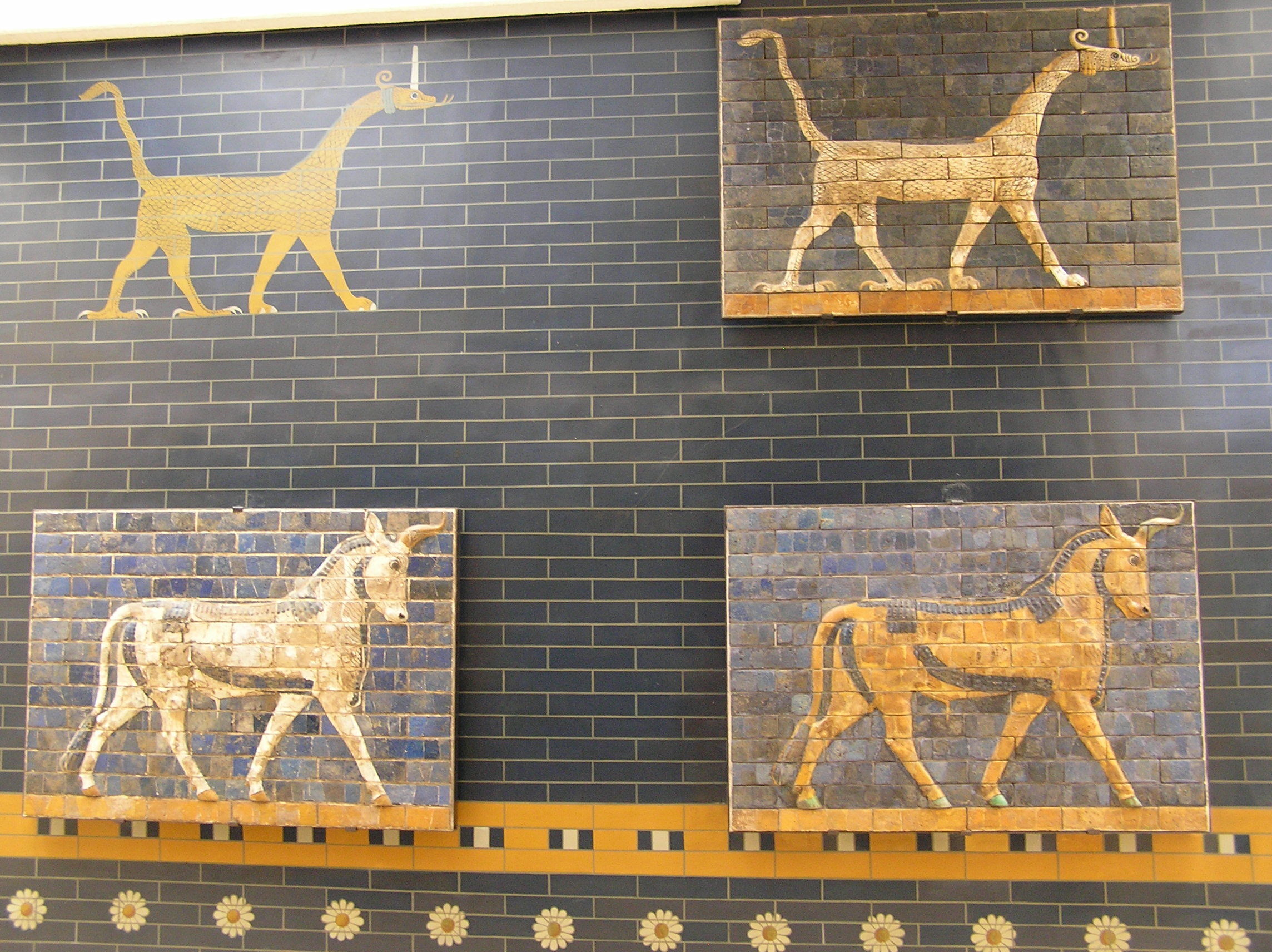 Passing animals, brick panels from the Procession Way which ran from the Marduk temple to the Ishtar Gate and the Akitu Temple. Glazed terracotta, reign of Nebuchadrezzar II (604 b.C. – 562 b.C.), Babylon (Iraq). From the Oriental pavilion, Archaeology Museums, Istanbul.